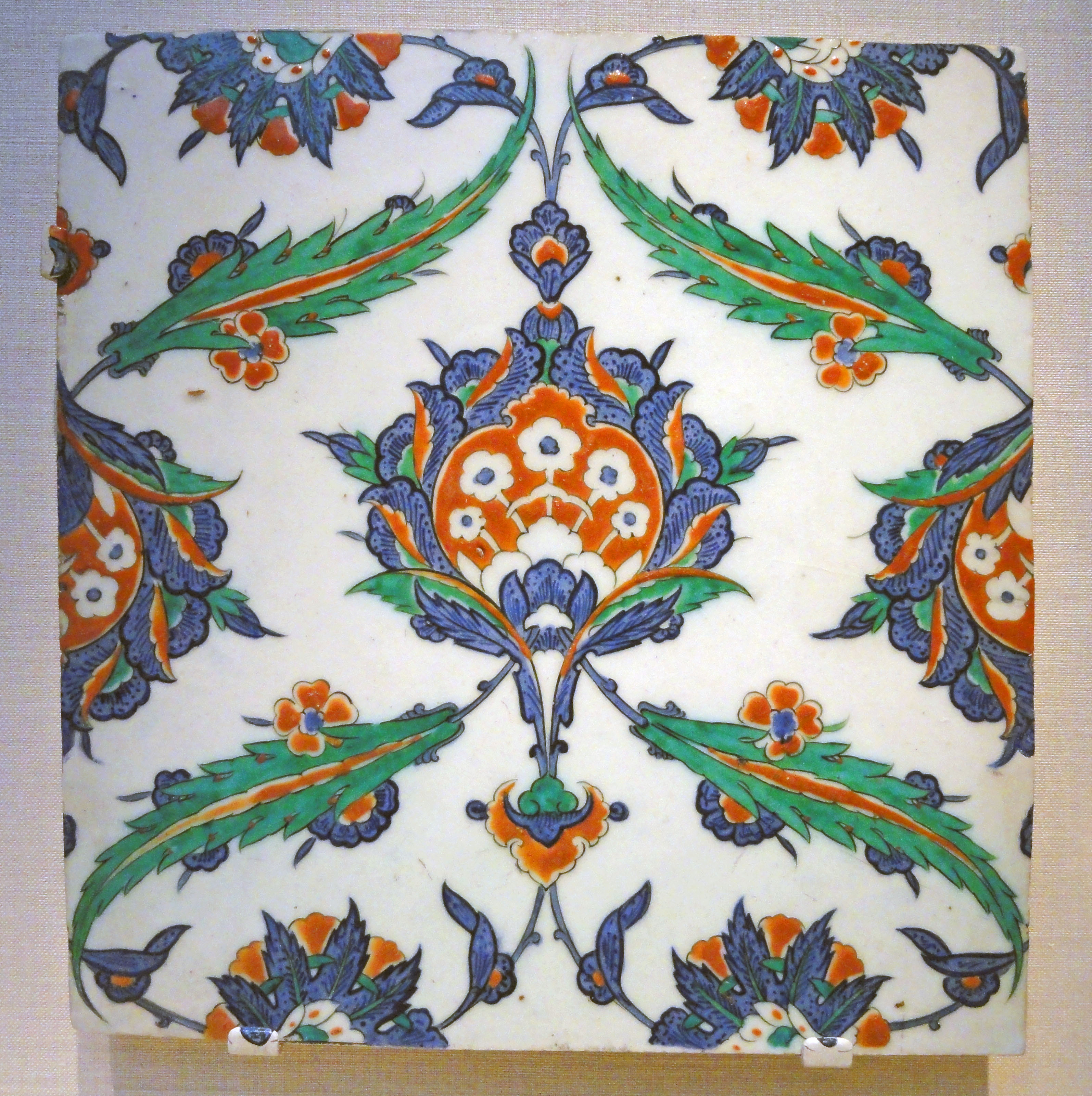 Wall tile with bole red, emerald green and cobalt blue decoration